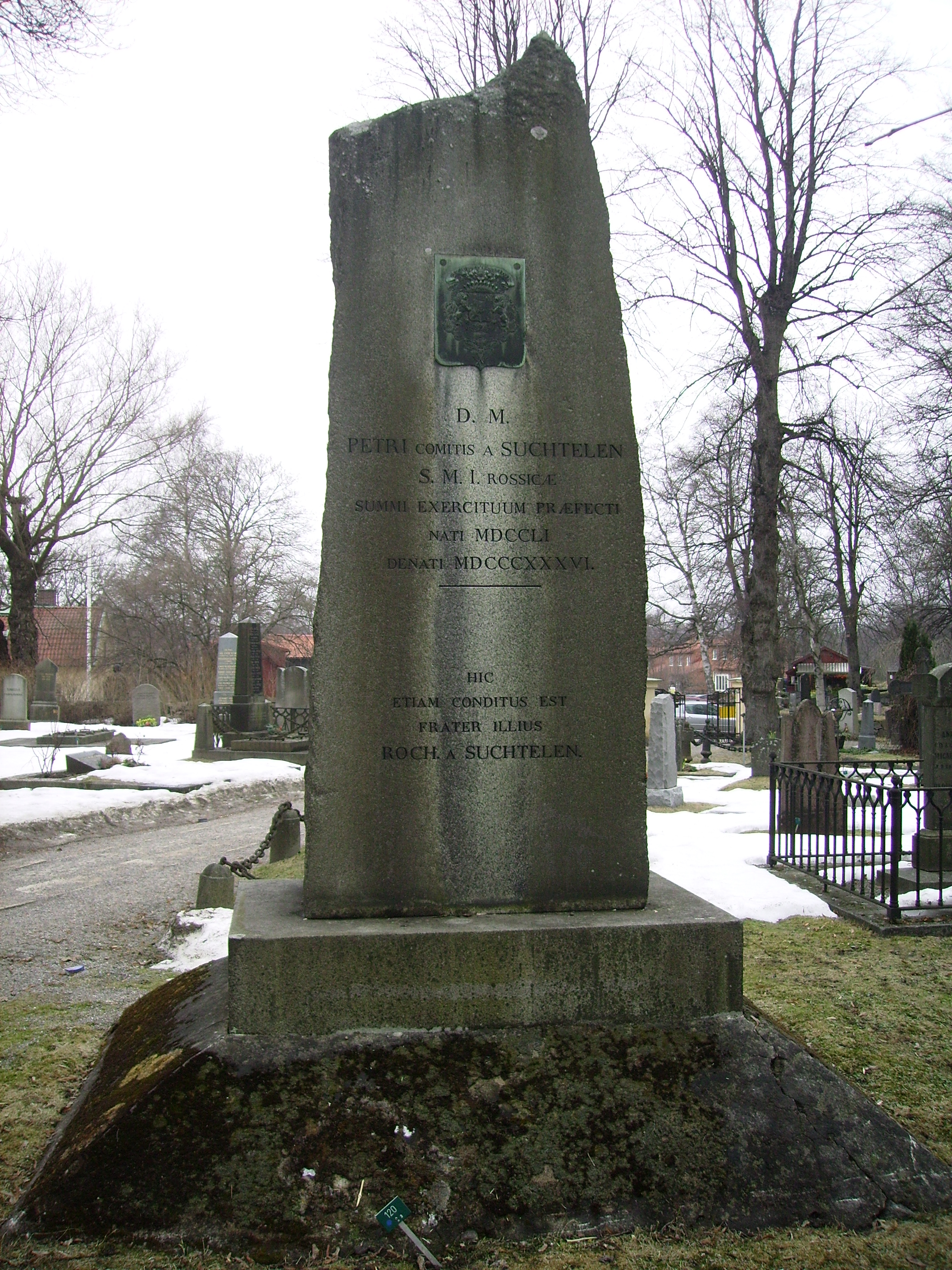 Picture of Johan Peter van Suchtelen's grave at Solna kyrkogård